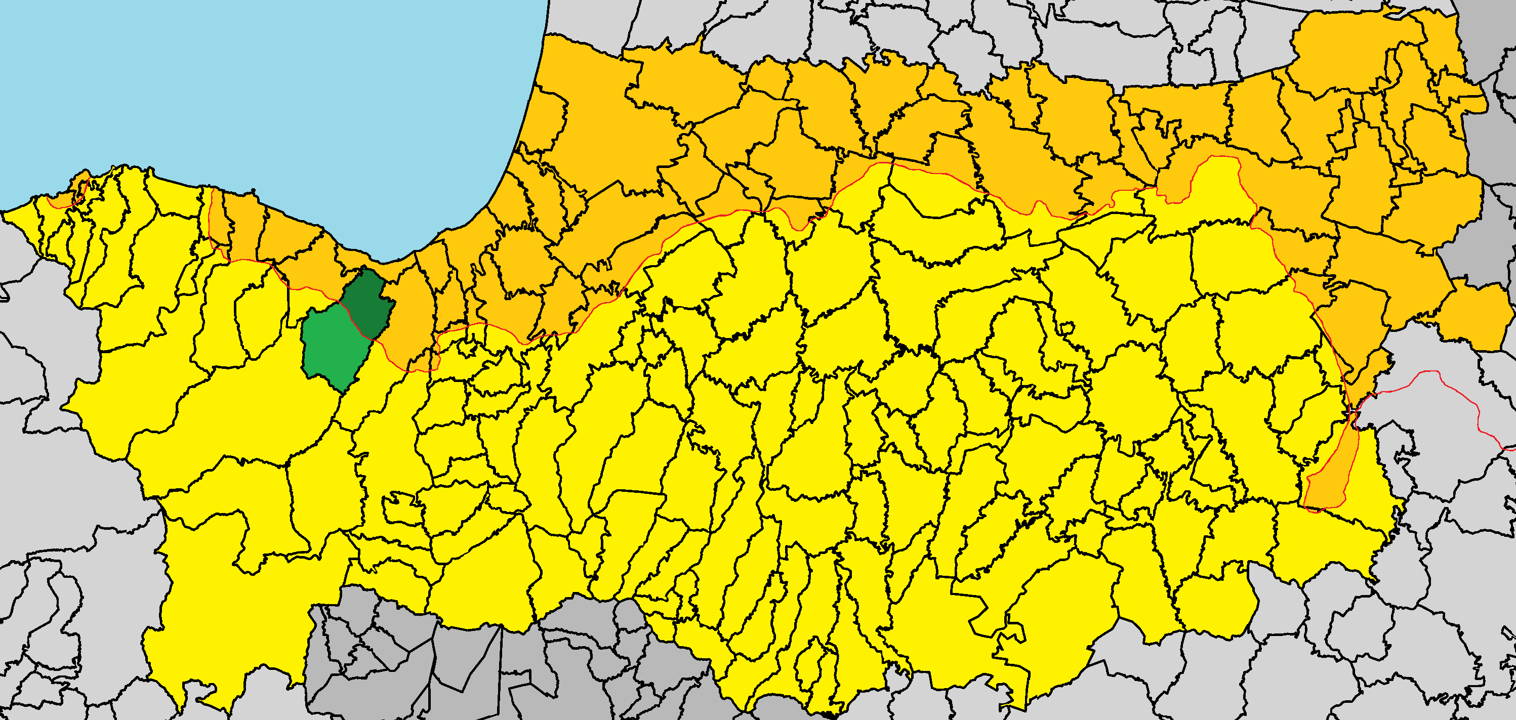 Ampelikou in Nicosia District (de jure).